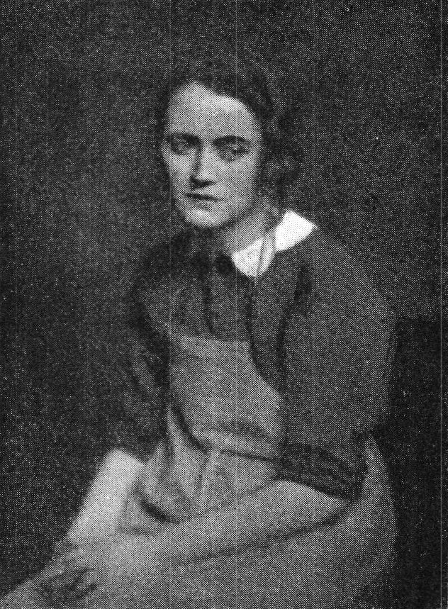 Betzy Holter as Hedvig in Ibsen's The Wild Duck at Nationaltheatret, 1928.